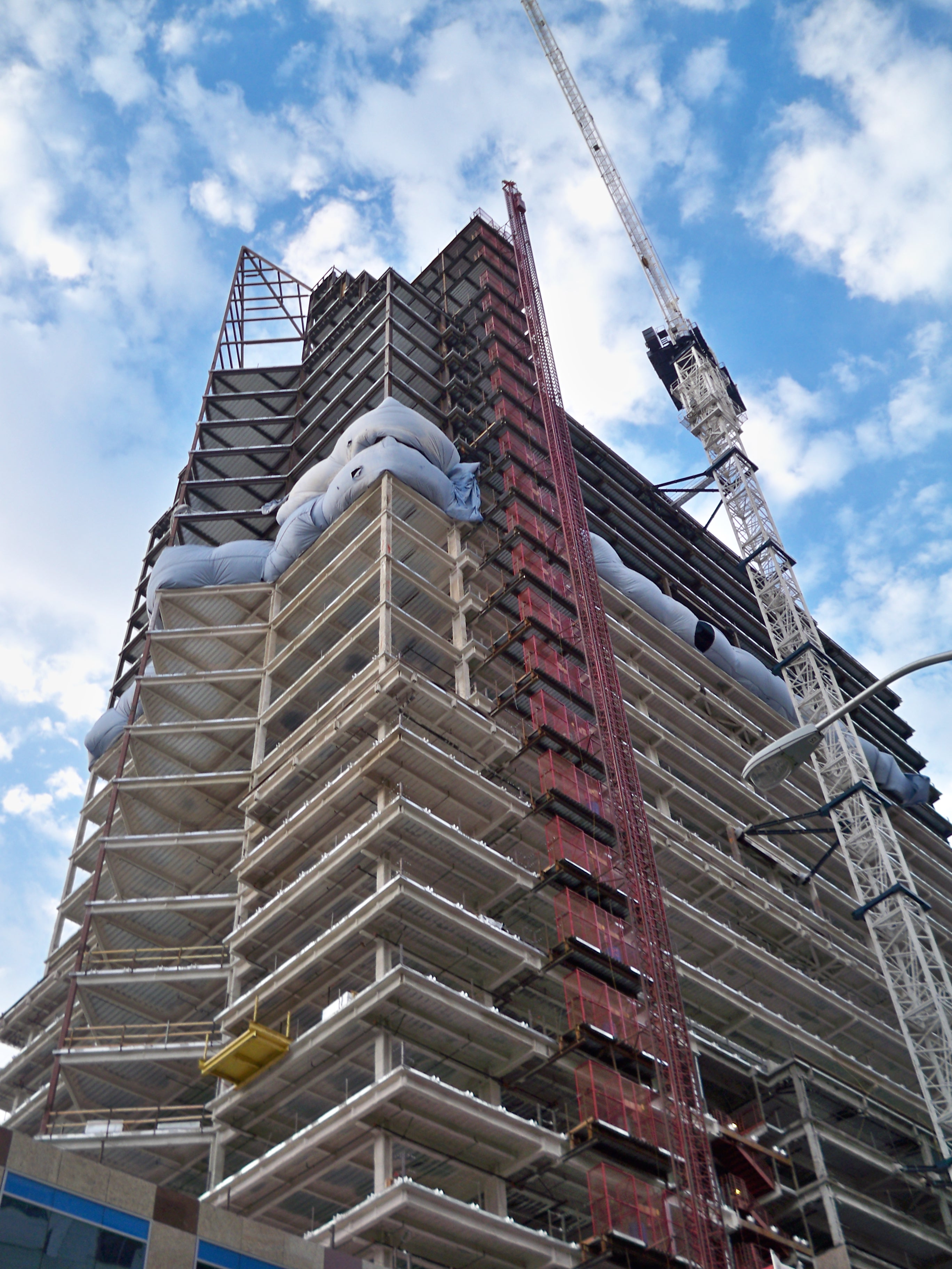 500 Capitol Mall